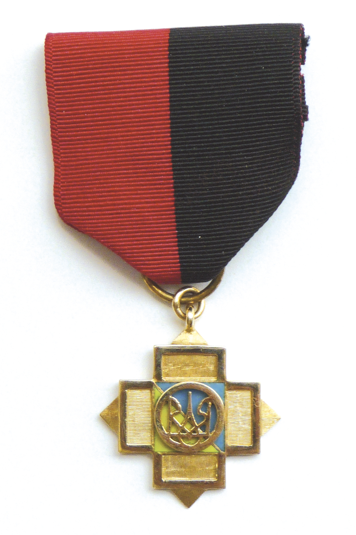 Golden Cross "25th anniversary of UPA" of Albert Hasenbroekx (1967)